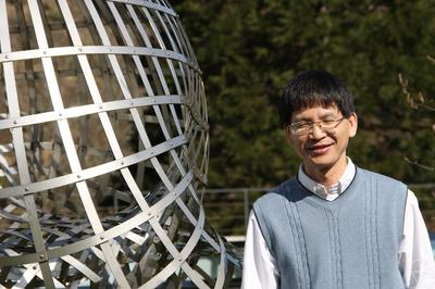 Picture of Pham Tiep